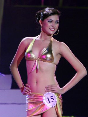 Janina San Miguel during the Q&A time of Binibining Pilipinas 2008.